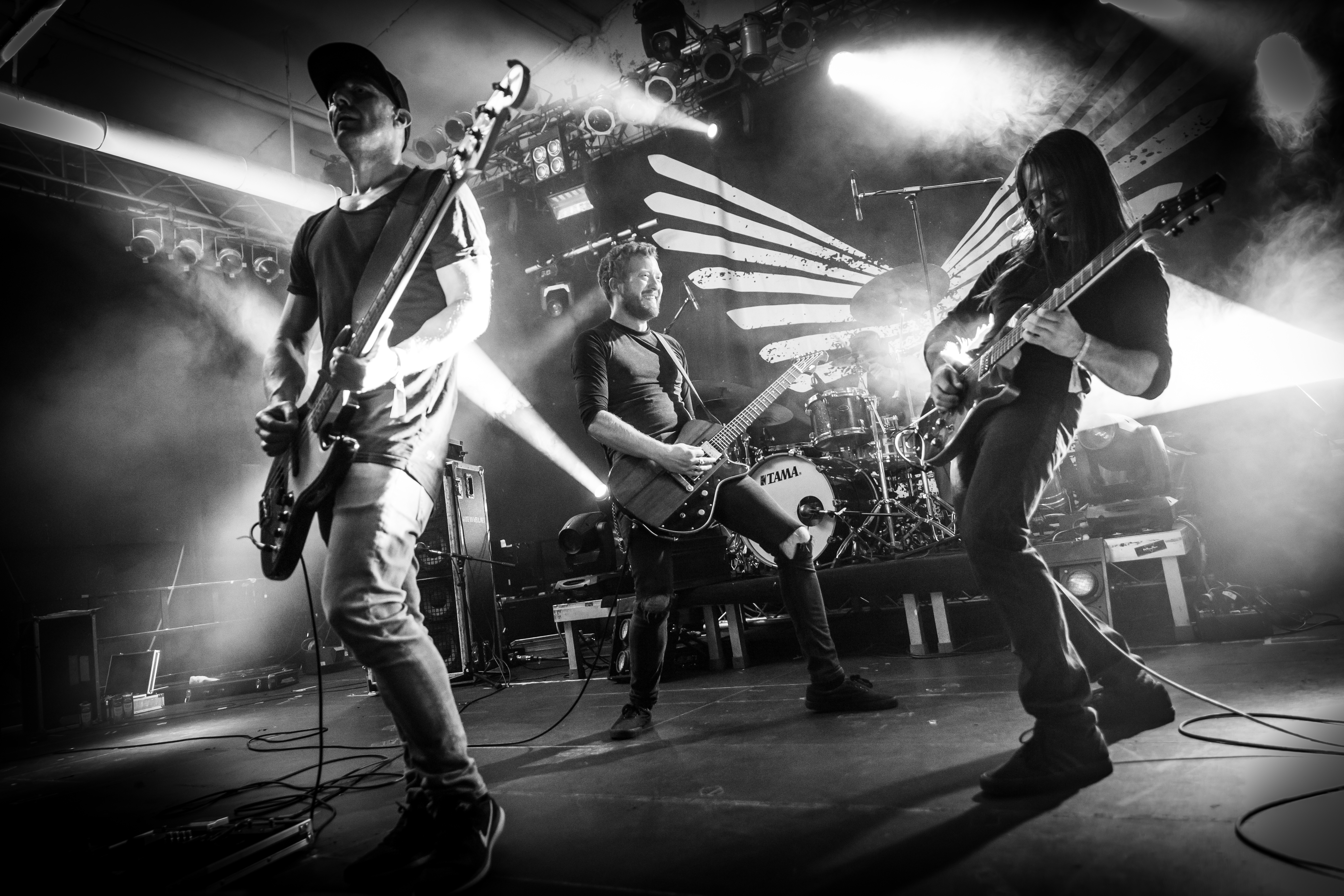 Long Distance Calling live at Euroblast Festival, Cologne 2018